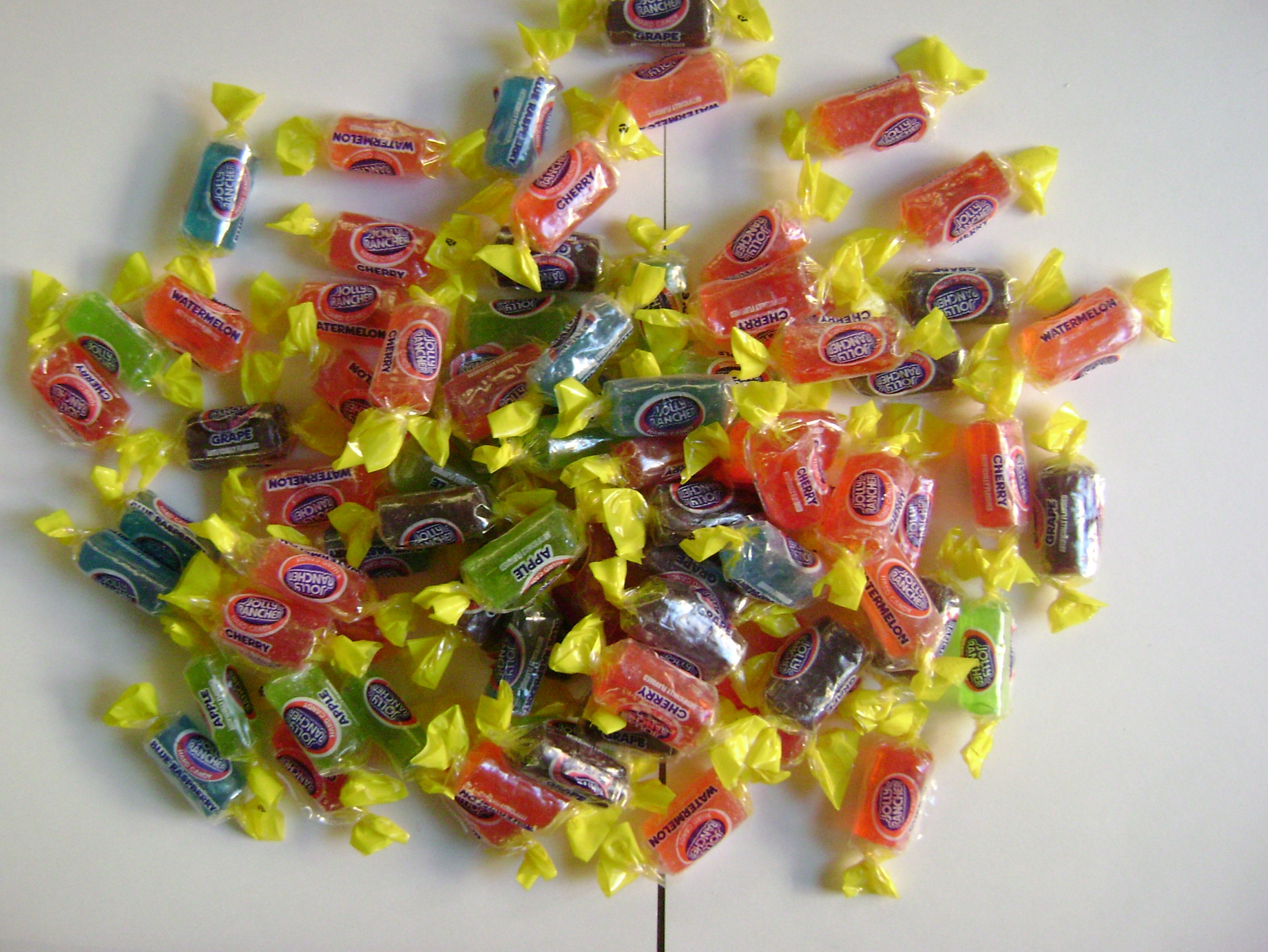 An assortment of Jolly Rancher candies